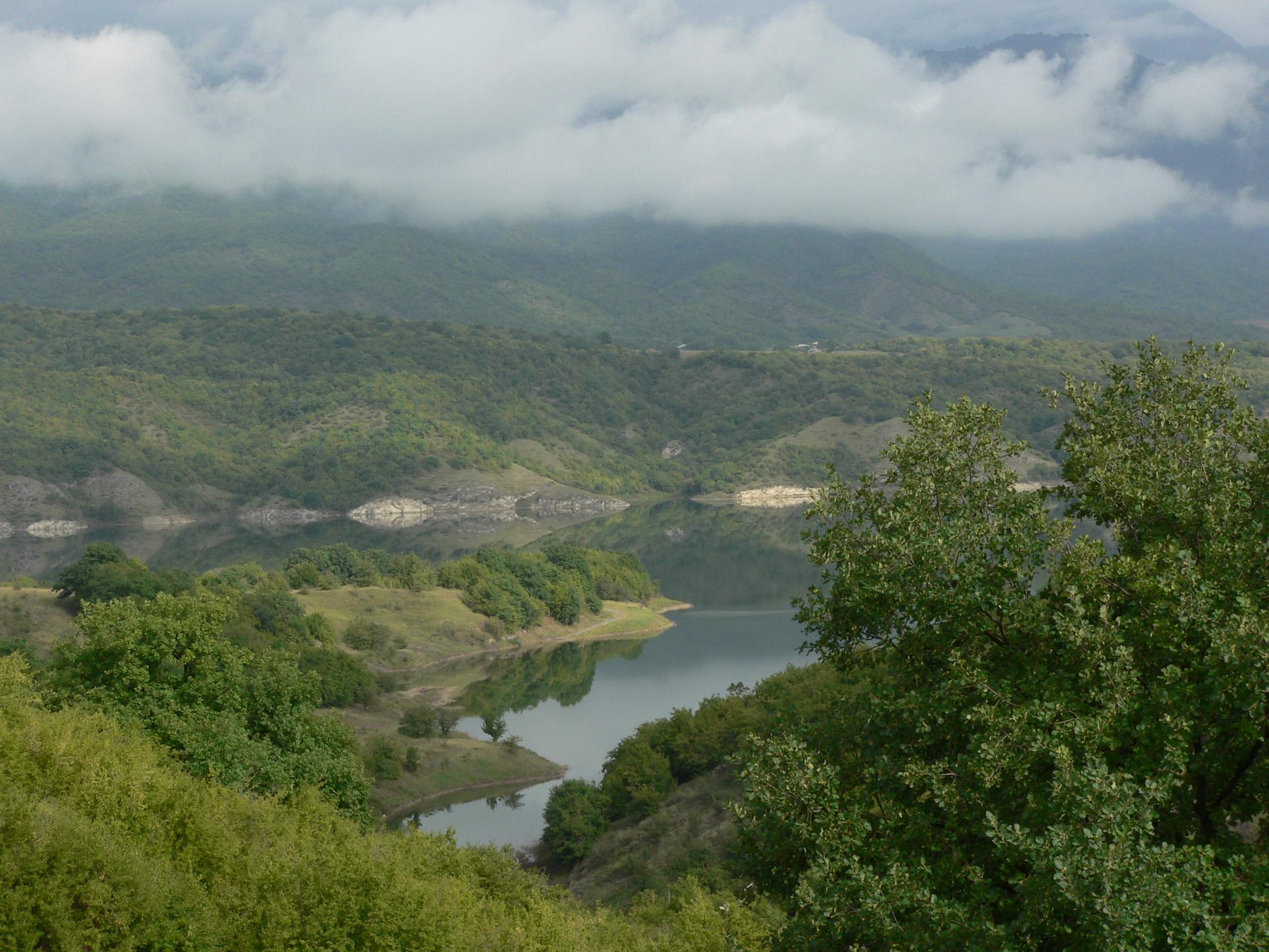 Sarsang reservoir from Drmbon village, Martakert region, Nagorno-Karabakh Republic (Republic of Azerbaijan)